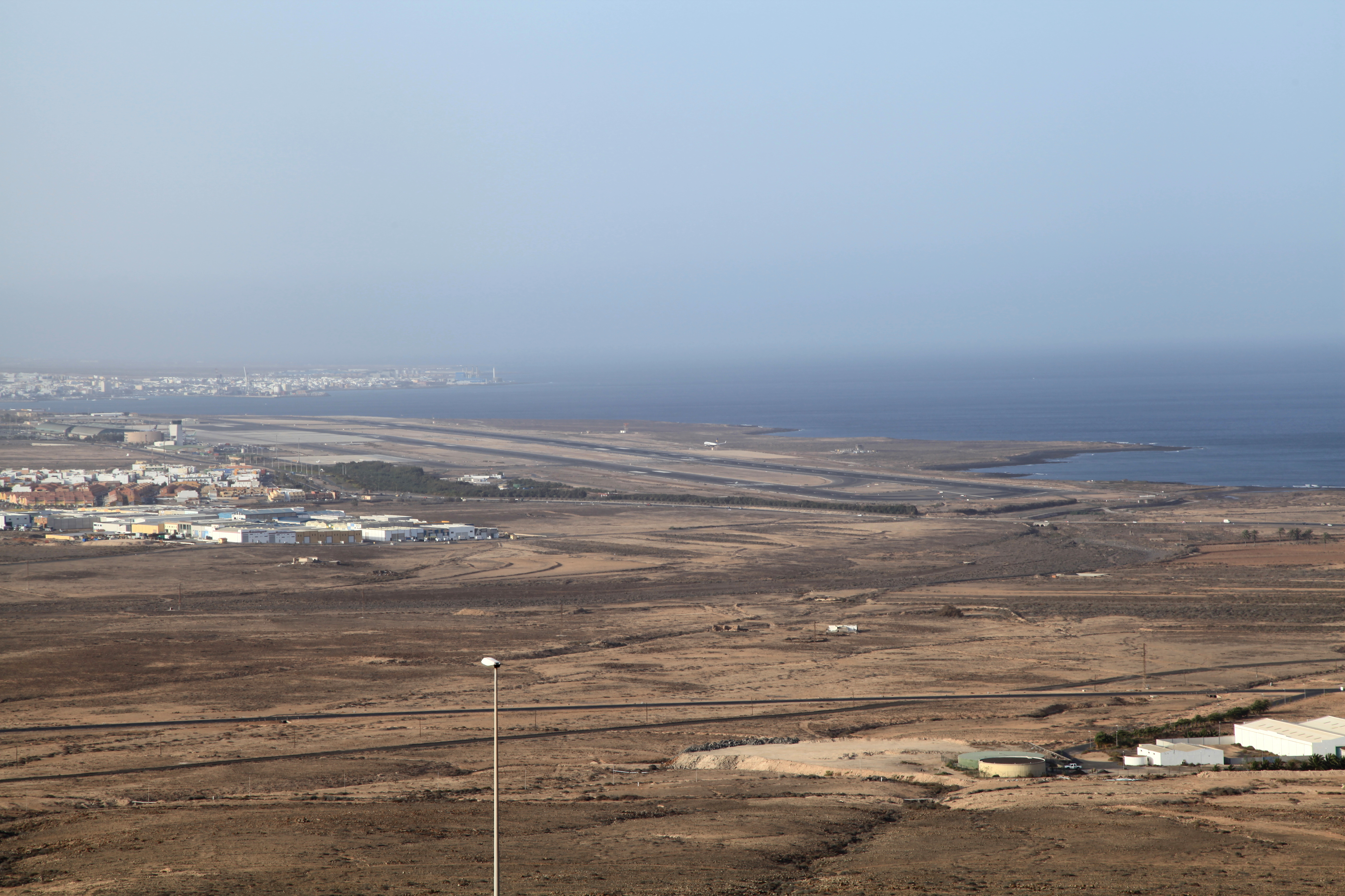 View from Montaña Blanca de Abajo down to El Matorral and the airport in Puerto del Rosario, Fuerteventura, Canary Islands